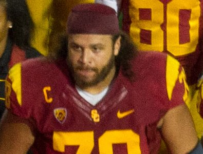 Khaled Holmes after a game in the 2012 USC Trojans season. (cropped version)